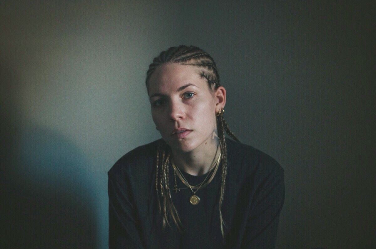 Skylar Grey